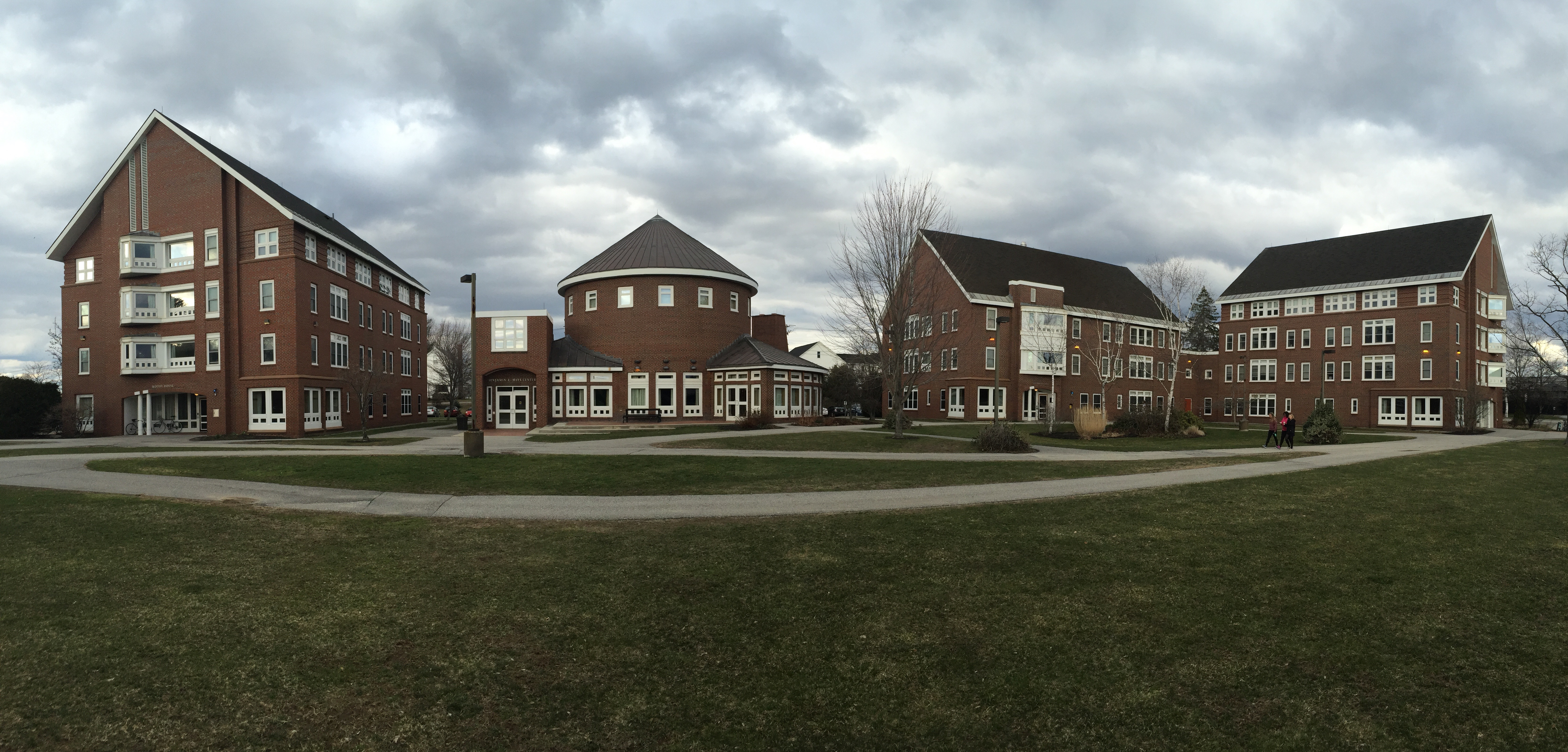 The Village at Bates College